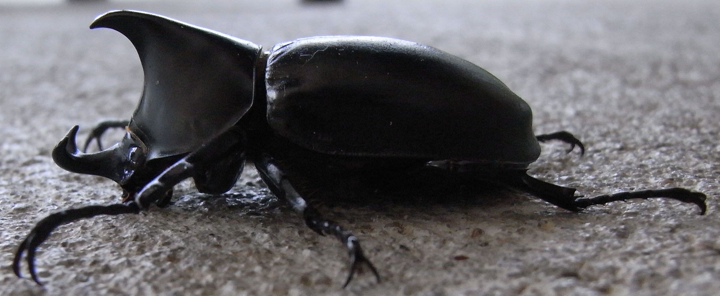 Living Rhinozeros Beetle (Xylotrupes ulysses australicus), lateral view, found on a concrete floor in Canungra, Queensland, Australia.